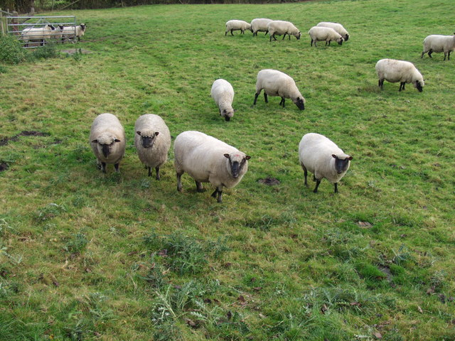 Llanwenog and Shropshire sheep A small farm beside the Montgomery Canal is the home for some of these two breeds of relatively rare sheep.